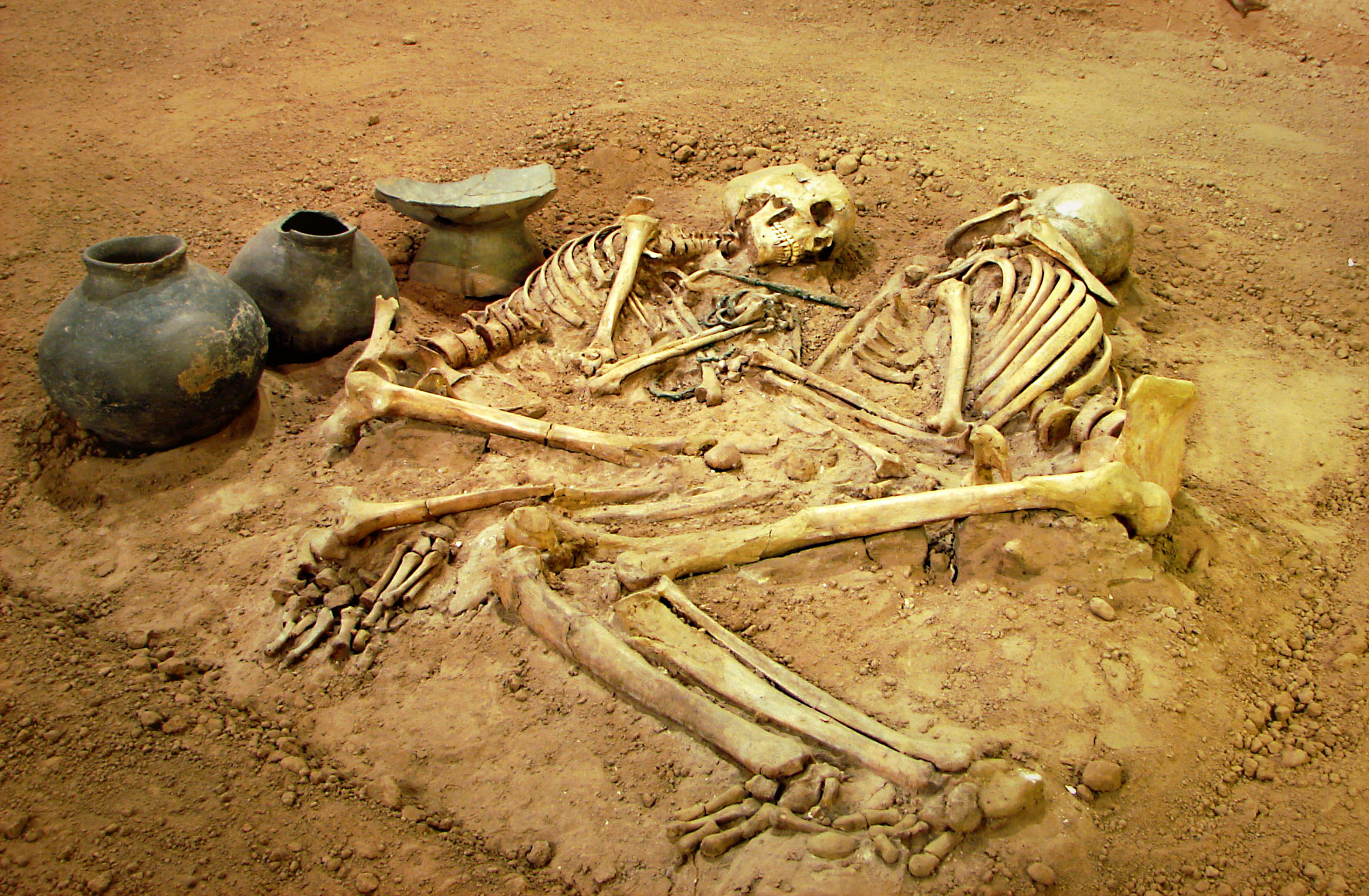 This is a select of pre-Islamic graves State of discovery: Blue mosque of Tabriz (8 meters depth) Age of burial: 3000 yearsEternal Love